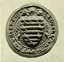 Seal of Aymer de Valence, 2nd Earl of Pembroke